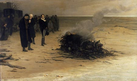 Louis Édouard Fournier, The Cremation of Percy Bysshe Shelley, oil on canvas, Liverpool, Walker Art Gallery.